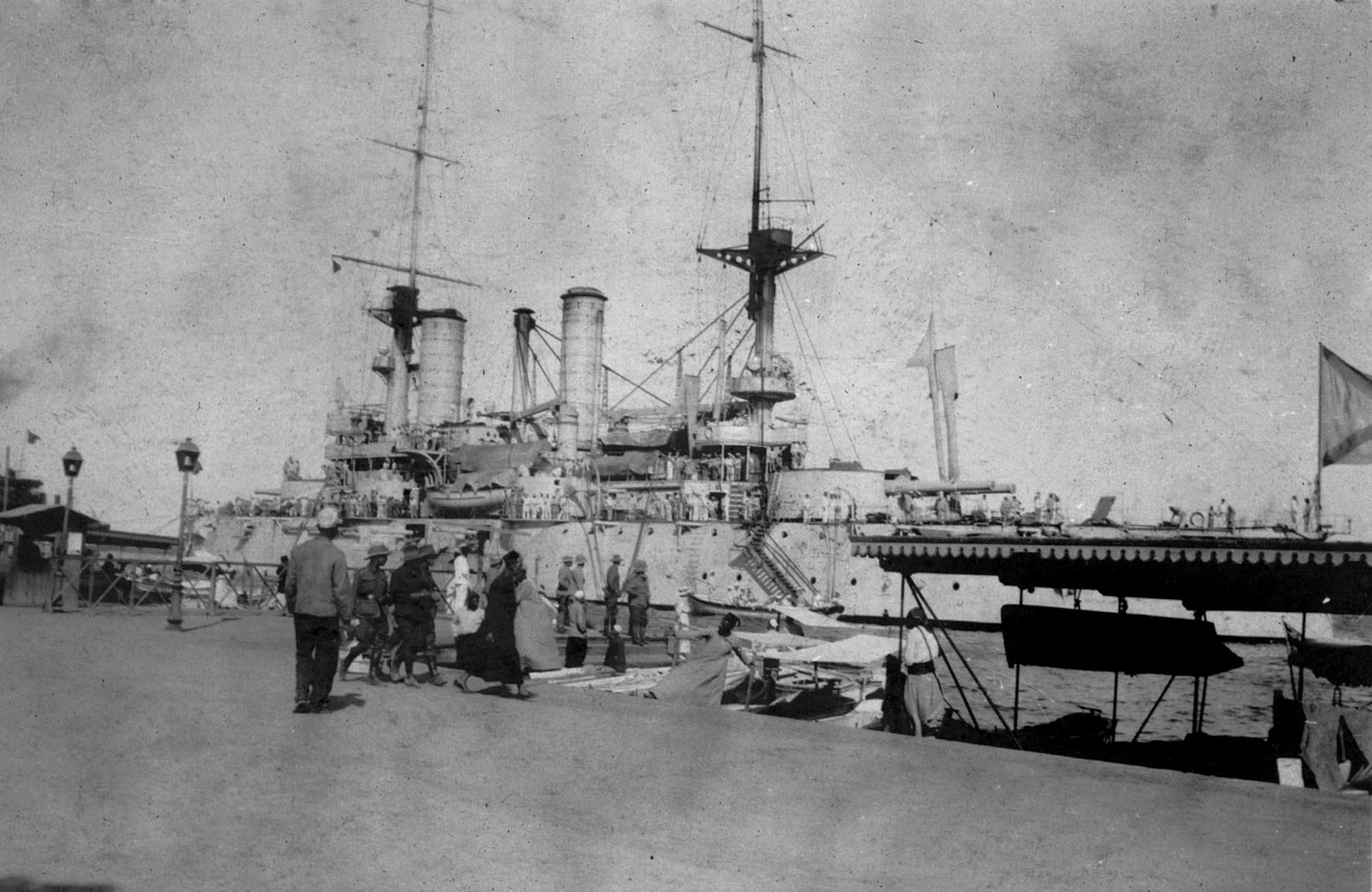 The Imperial Russian battleship Chesma in Alexandria, 1916.